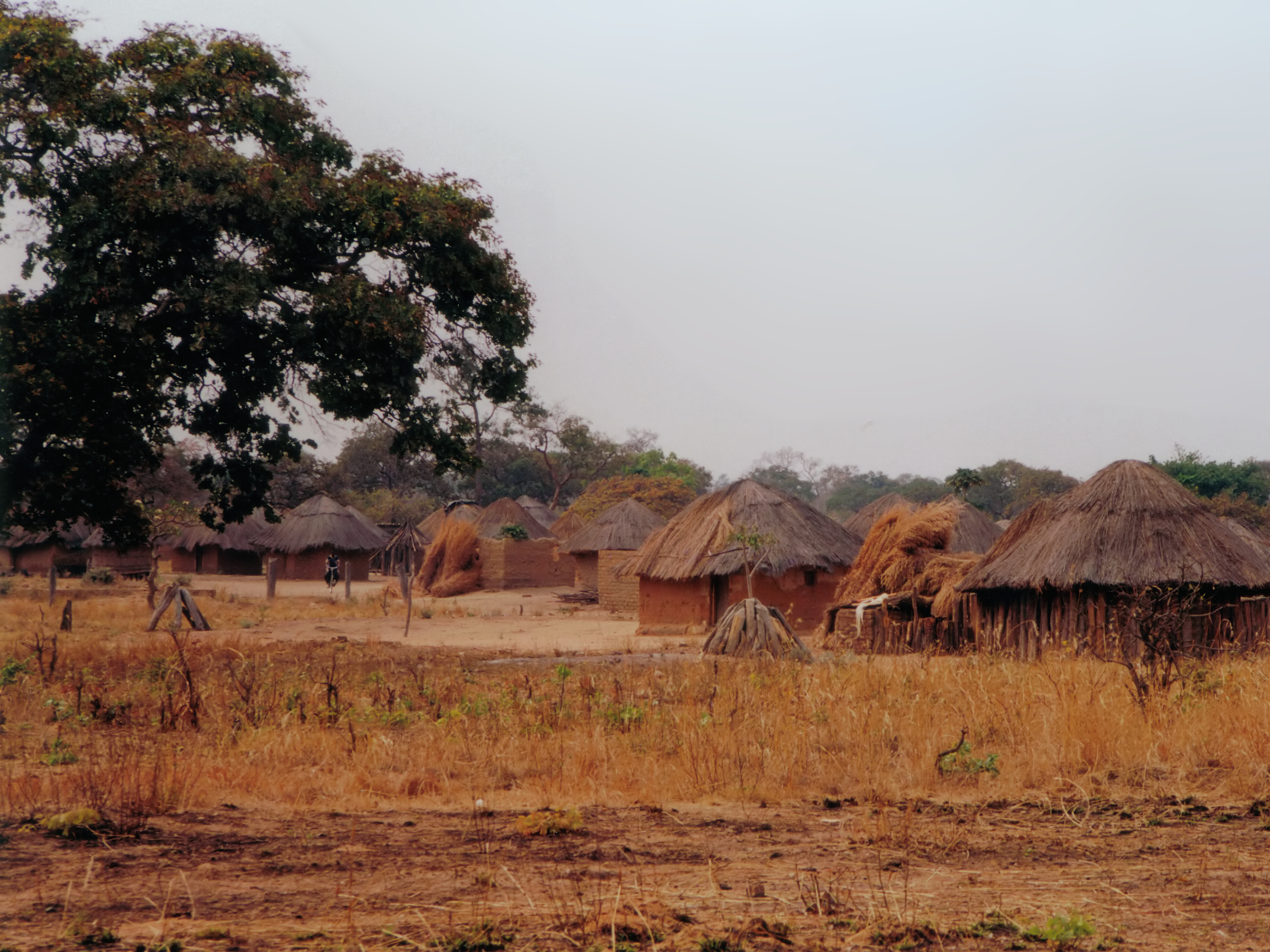 Village along Great East road, Zambia. Scanned from photograph